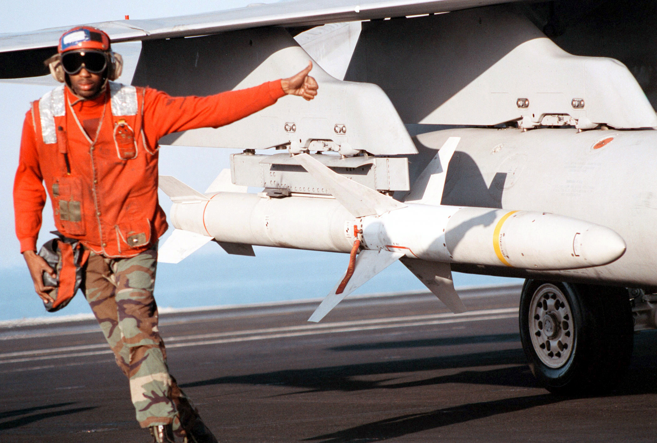 At sea aboard USS George Washington (CVN 73) in the Arabian Gulf - Aviation Ordnanceman 3rd Class Quentin Bryant, from Augusta, GA, gives a “thumbs up” following the inspection of an AGM-88 “HARM” air-to-ground high speed missile, loaded on an F/A-18C “Hornet.” The AGM-88 HARM (high-speed antiradiation missile) is an air-to-surface tactical weapon designed to seek and destroy enemy radar-equipped air defense systems.